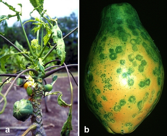 Image of Papaya Ringspot Virus symptoms on trees and fruit